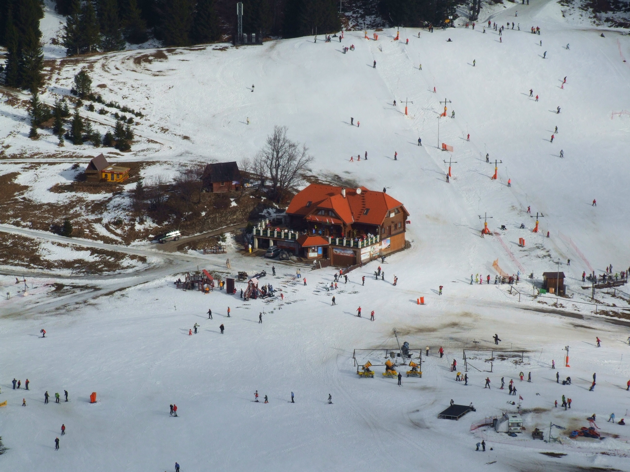 Skipark Ružomberok, Slovakia. Bistro "Daria"